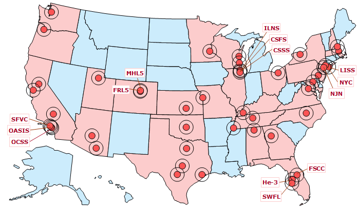 SUMMARY: Map of the United States containing locations of local National Space Society chapters (image courtesy of NSS via permission) AUTHOR: National Space Society, registered as a nonprofit 501(c)3 educational organization 1620 I (Eye) Street NW, Suite 615, Washington, DC 20006 Tel: (202) 429-1600 -- FAX: (202) 463-8497 -- Direct questions about membership matters to: Copyright © 1998-2006, National Space Society URL